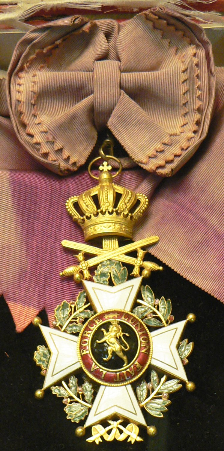 Chiang Kai-shek's Order of Léopold, exhibited at his memorial in Taipei